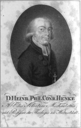 Philipp Conrad Henke, German professor and theologian.